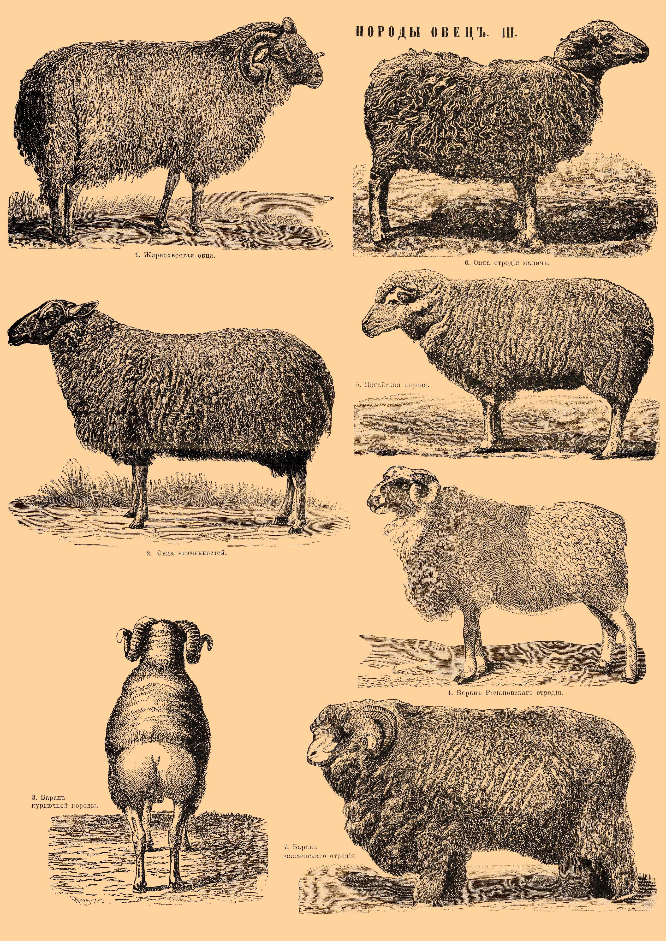 Illustration from Brockhaus and Efron Encyclopedic Dictionary (1890—1907)